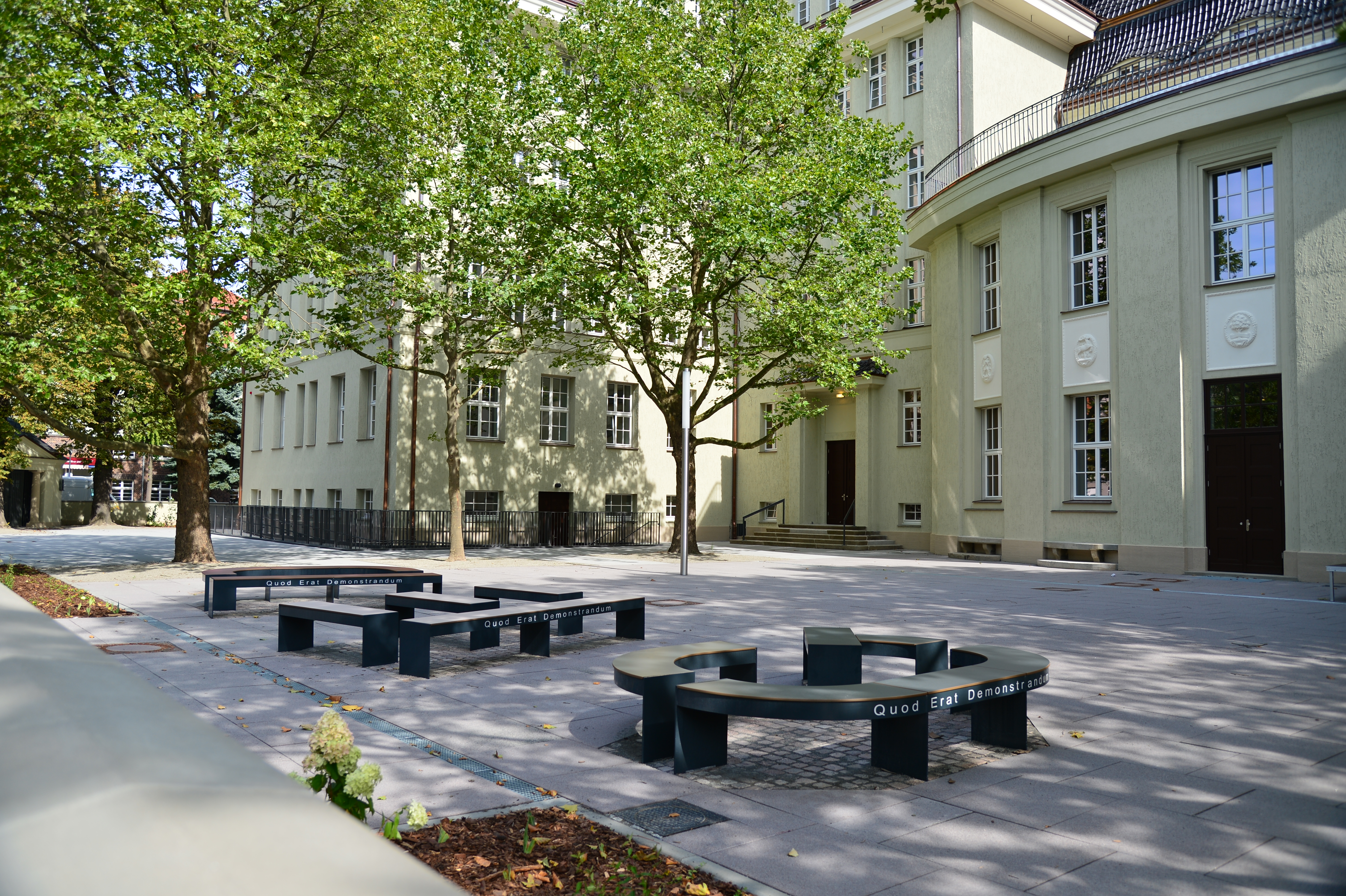 Hans-Erlwein-Gymnasium Dresden after reconstruction in 2014